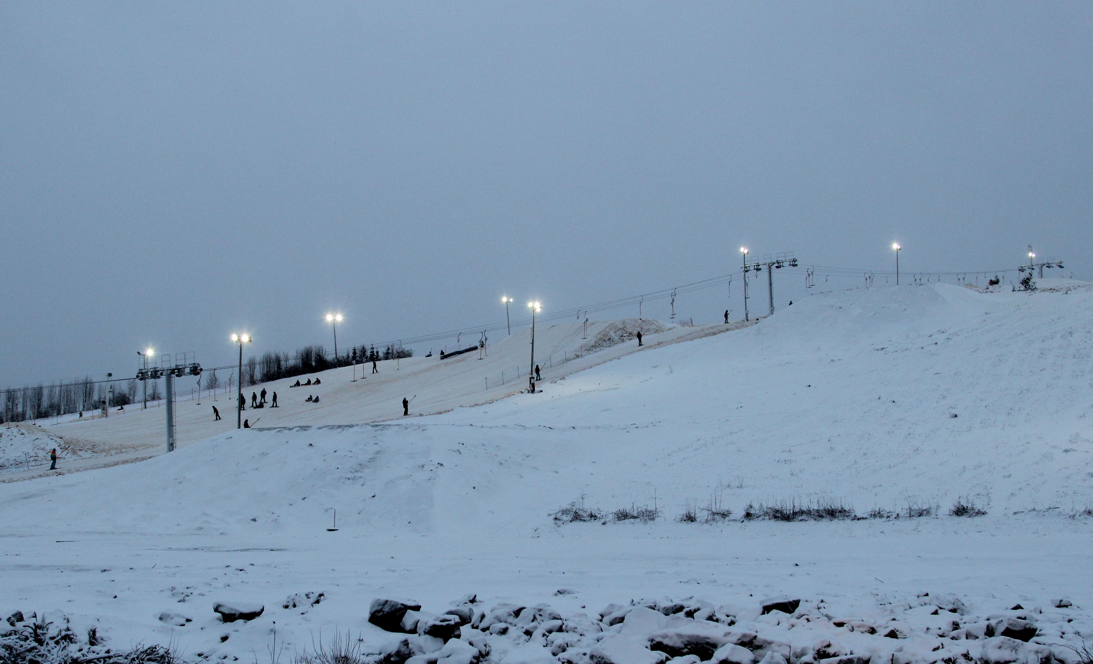 Ruskotunturi, a ski resort in Oulu.